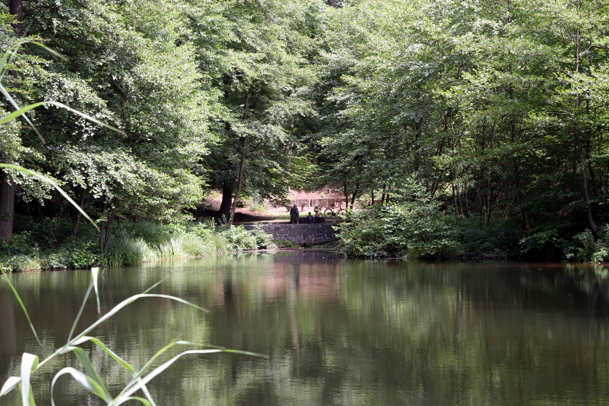 The Oberjägermeisterteich (fishing pond), crossed by the creek Darmbach (Hesse, Germany)